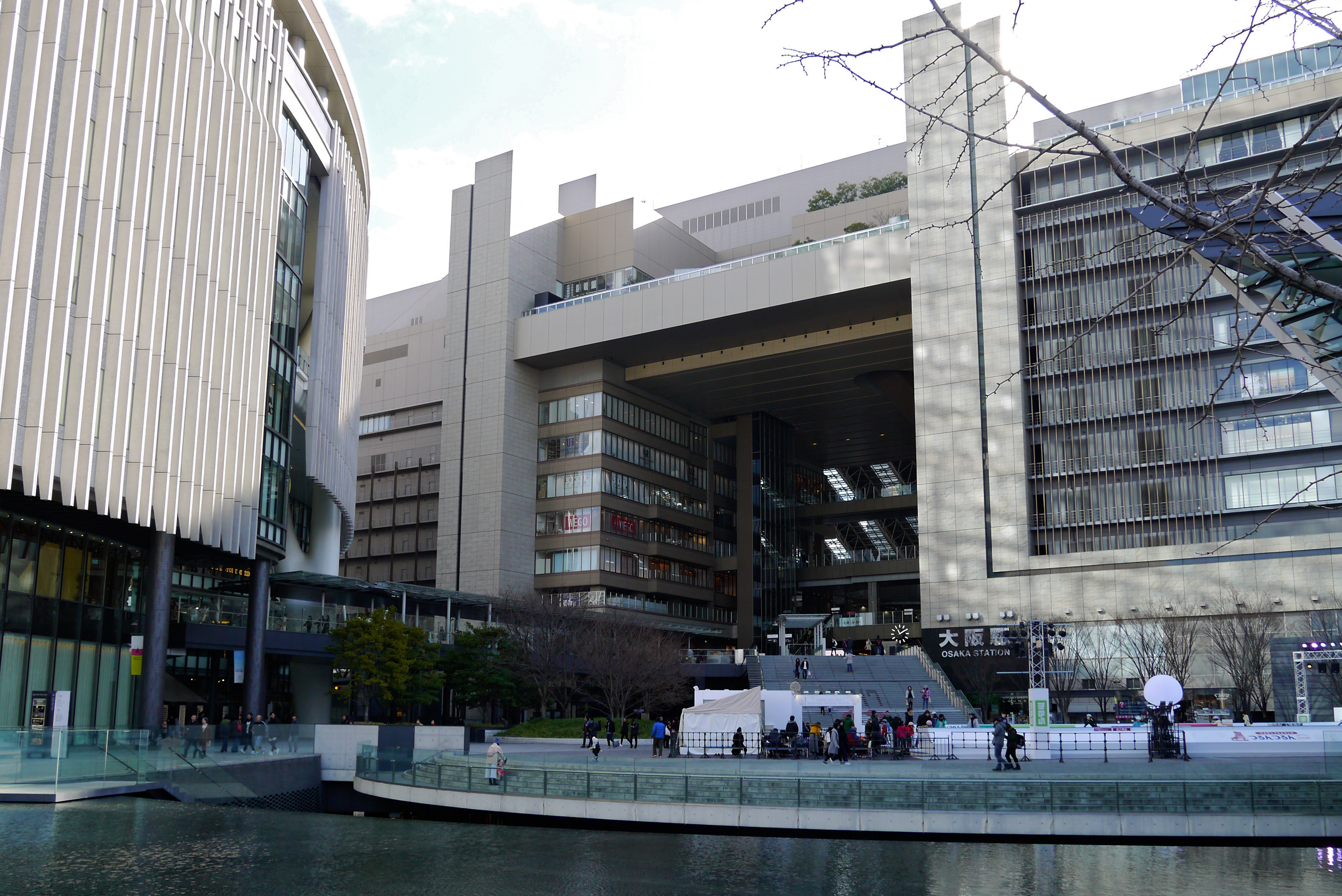 Osaka Station, Osaka, Osaka prefecture, Japan Panasonic Lumix DMC-GF5